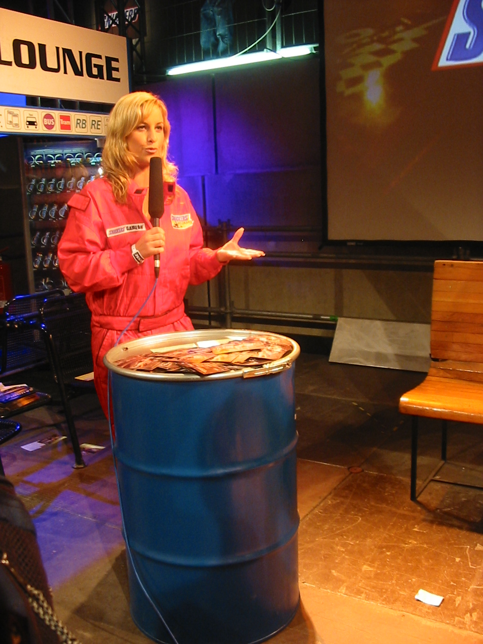 Charlotte Engelhardt hosting the show "Snickers Wildkarts - Raserei unter'm Reichstag" (Berlin, U-Bahnhof Reichstag)